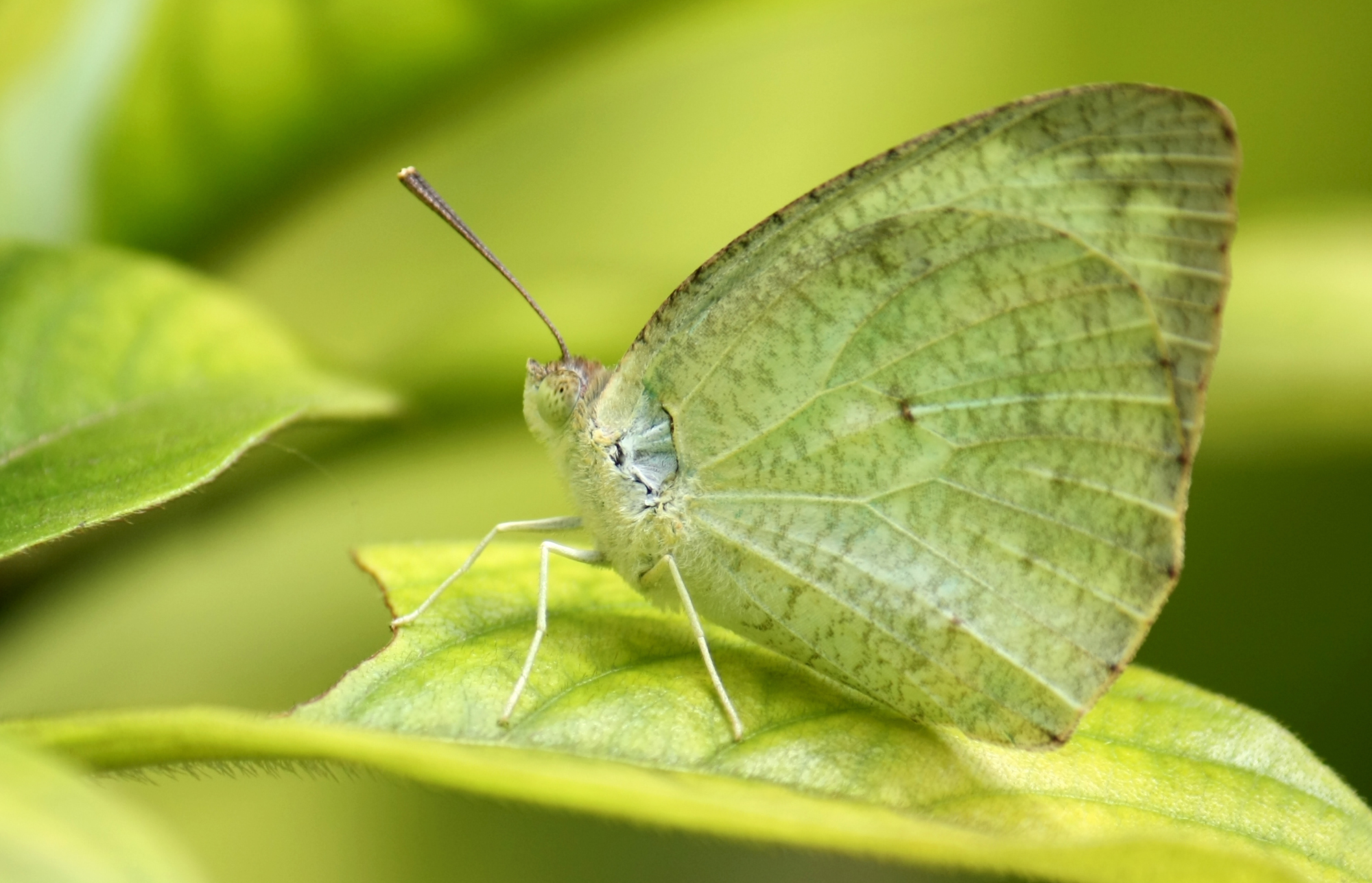 Butterfly of Southern India, Tamil Nadu & Sri Lanka